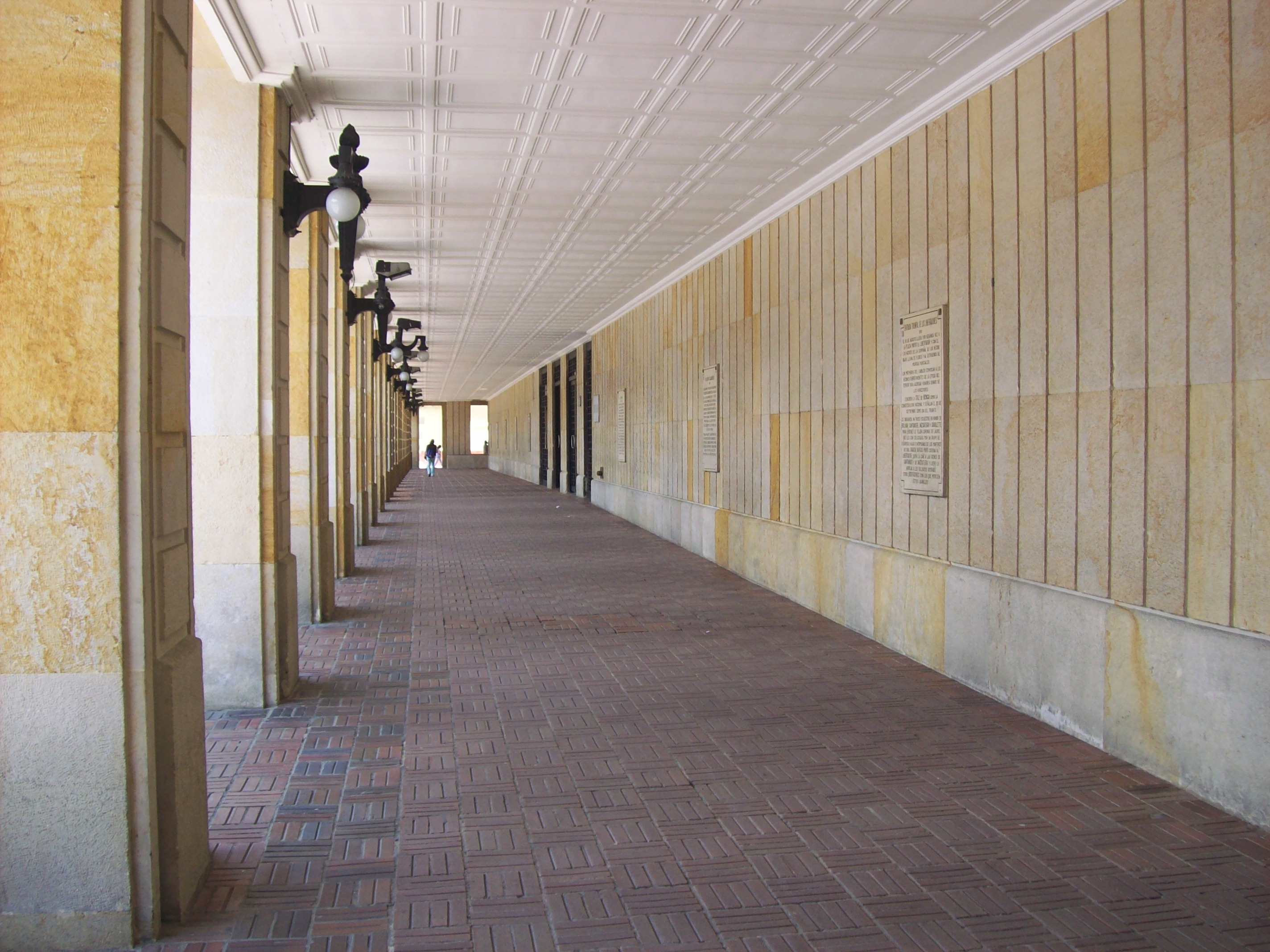 Main hall of the Lievano Building in Bogotá (Colombia).